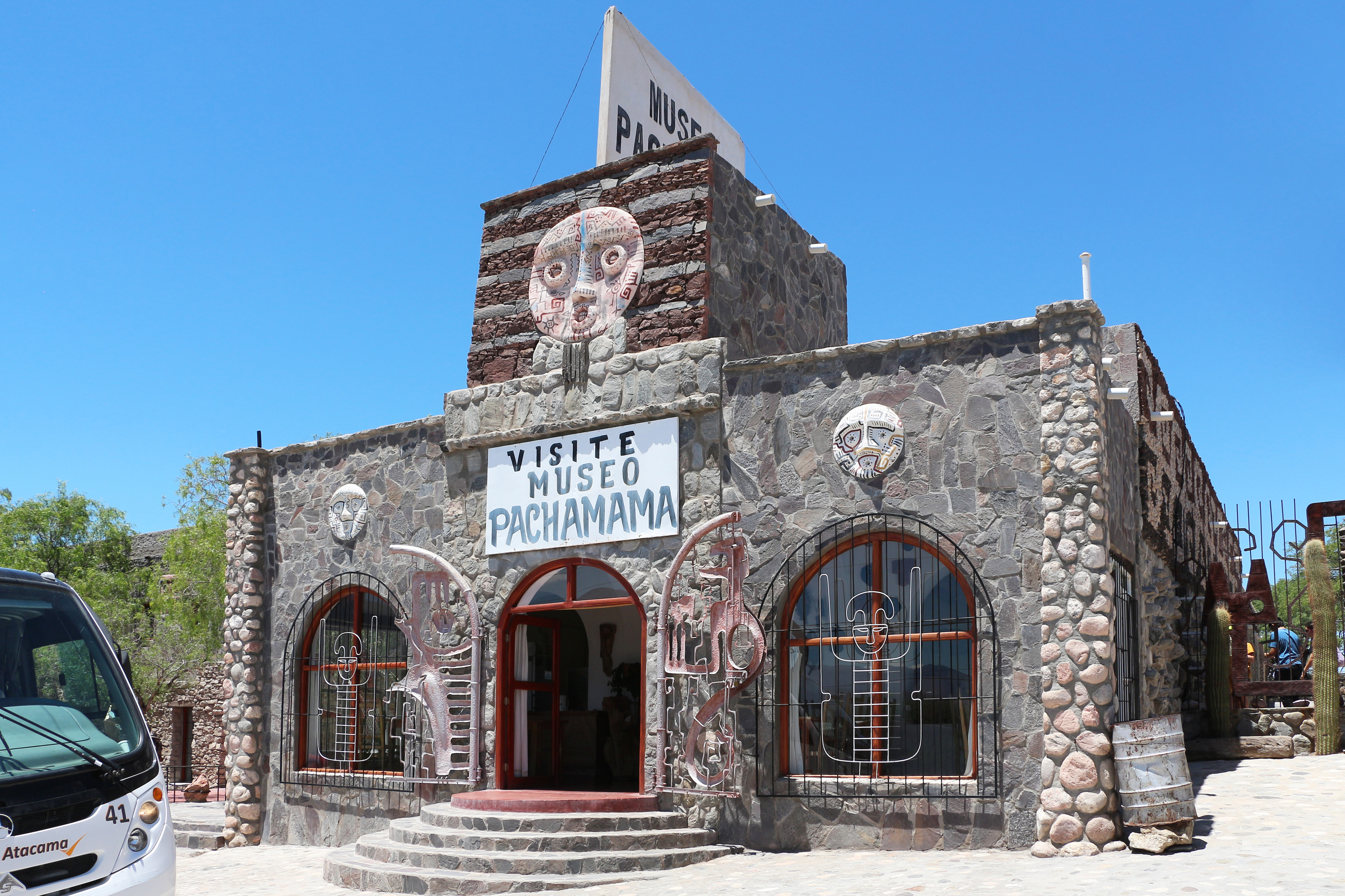 Pachamama Museum, Amaicha del Valle, Argentina